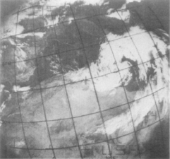 ESSA-8 visible satellite imagery of a Mediterranean tropical storm at 0909 UTC on 23 September 1969